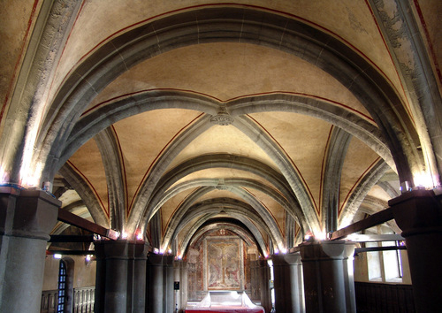 Salone Dugentesco Vercelli